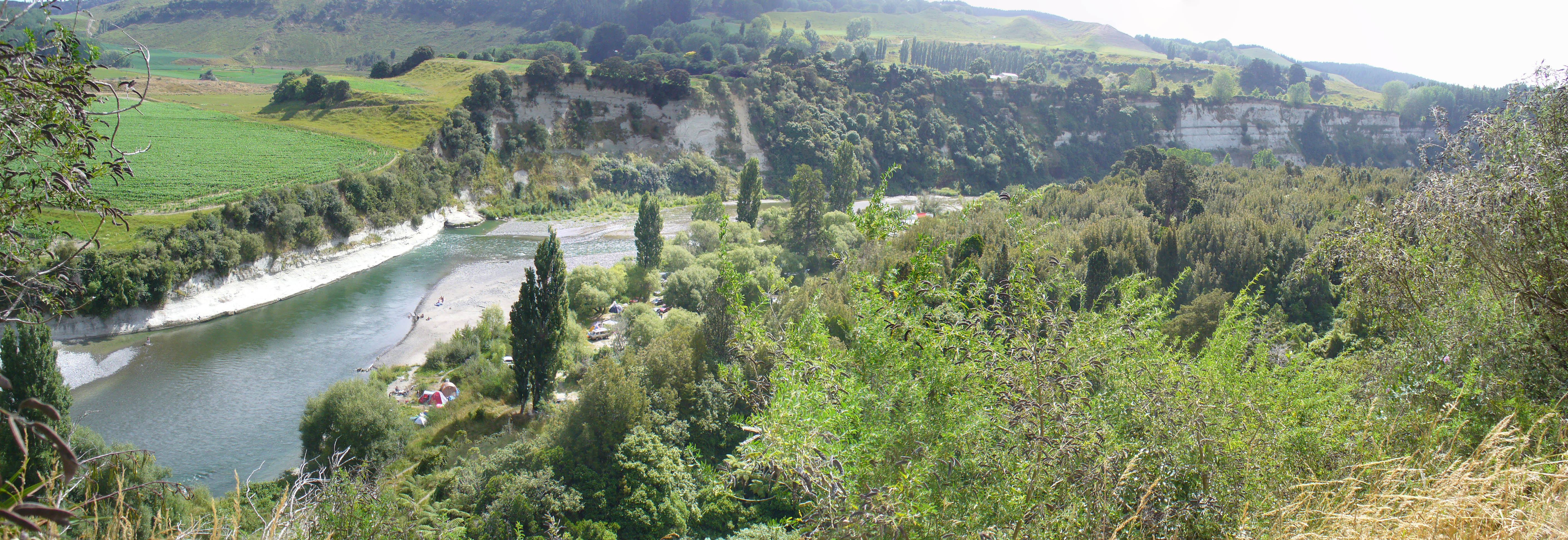 This was taken by me, Calum Bennachie, who holds the copyright. I provide this image to Wikipedia for free and fair use. It was taken between 1608 and 1609 NZ Summer time on 1 January 2009, from the East bank of the Rangitikei River over looking the Vinegar Hill Campsite from a point approx 39°56'15.60"S 175°38'39.60"E, and is a composite panorama of 4 images taken on a Panasonic DMC-LZ5 at f/5.6 with a shutter speed of 1/160sec and ISO-80.